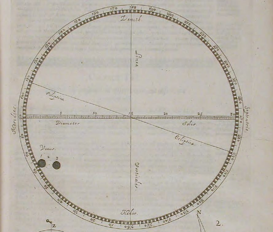 A representation of Jeremiah Horrocks' observation of a Venus transit across the Sun in 1639, publshed by Johannes Hevelius with Horrocks' Venus in sole visa in 1662. Hevelius seems to have been confused about the orientation of the image projected by Horrocks' Galilean telescope and has shown an inverted mirror image of what he would have seen. Horrocks wrote: "I found that the shadow of Venus at the aforesaid hour, namely fifteen minutes past three, had entered the Sun's disk about 620 30', certainly between 600 and 650, from the top towards the right. This was the appearance in the dark apartment; therefore out of doors beneath the open sky, according to the laws of optics, the contrary would be the case, and Venus would be below the centre of the Sun, distant 620 30' from the lower limb, or the nadir, as the Arabians term it." The image also shows Venus as three evenly spaced disks whereas the observations were made at irregular intervals.